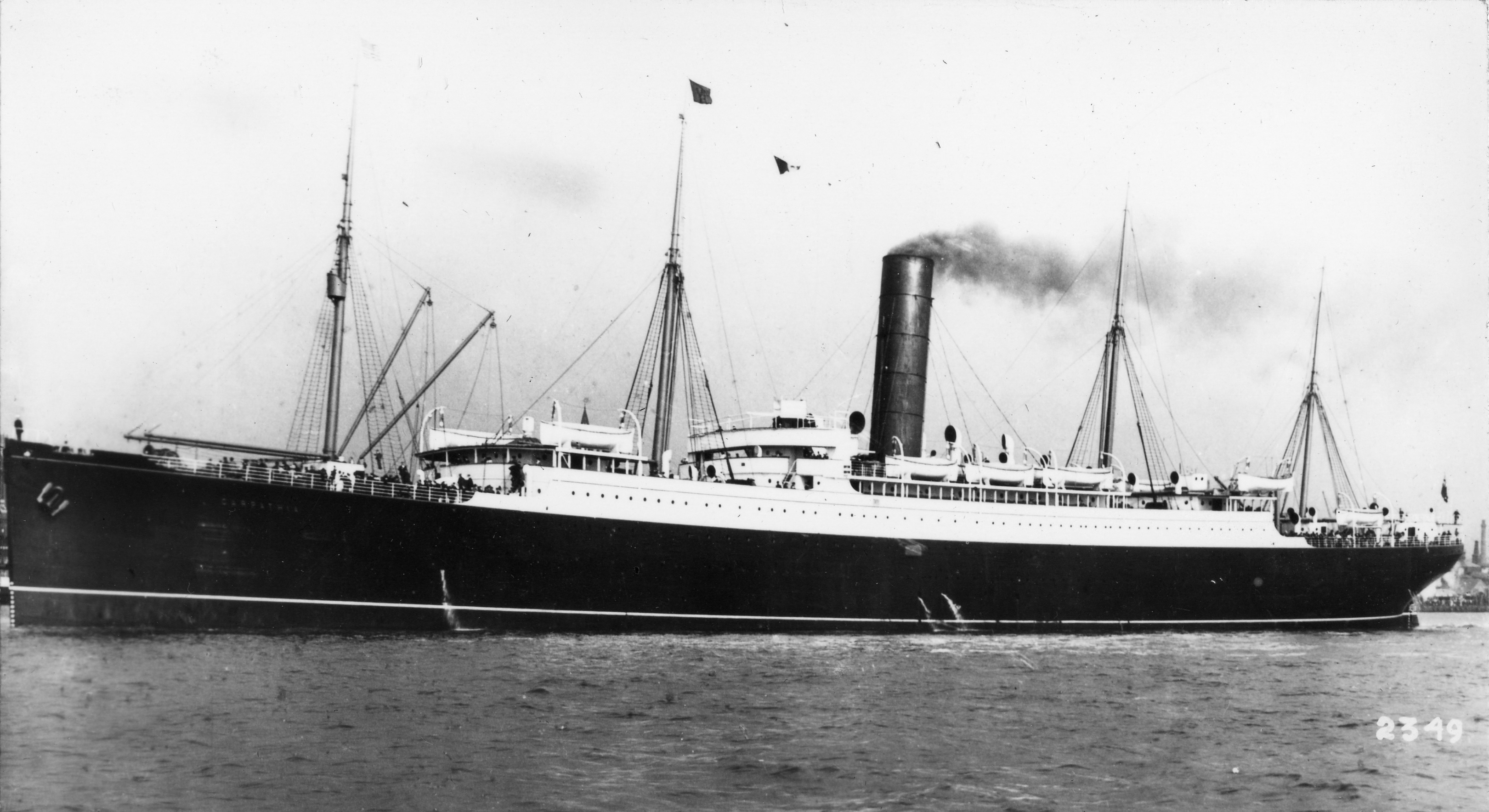 Photo of RMS Carpathia